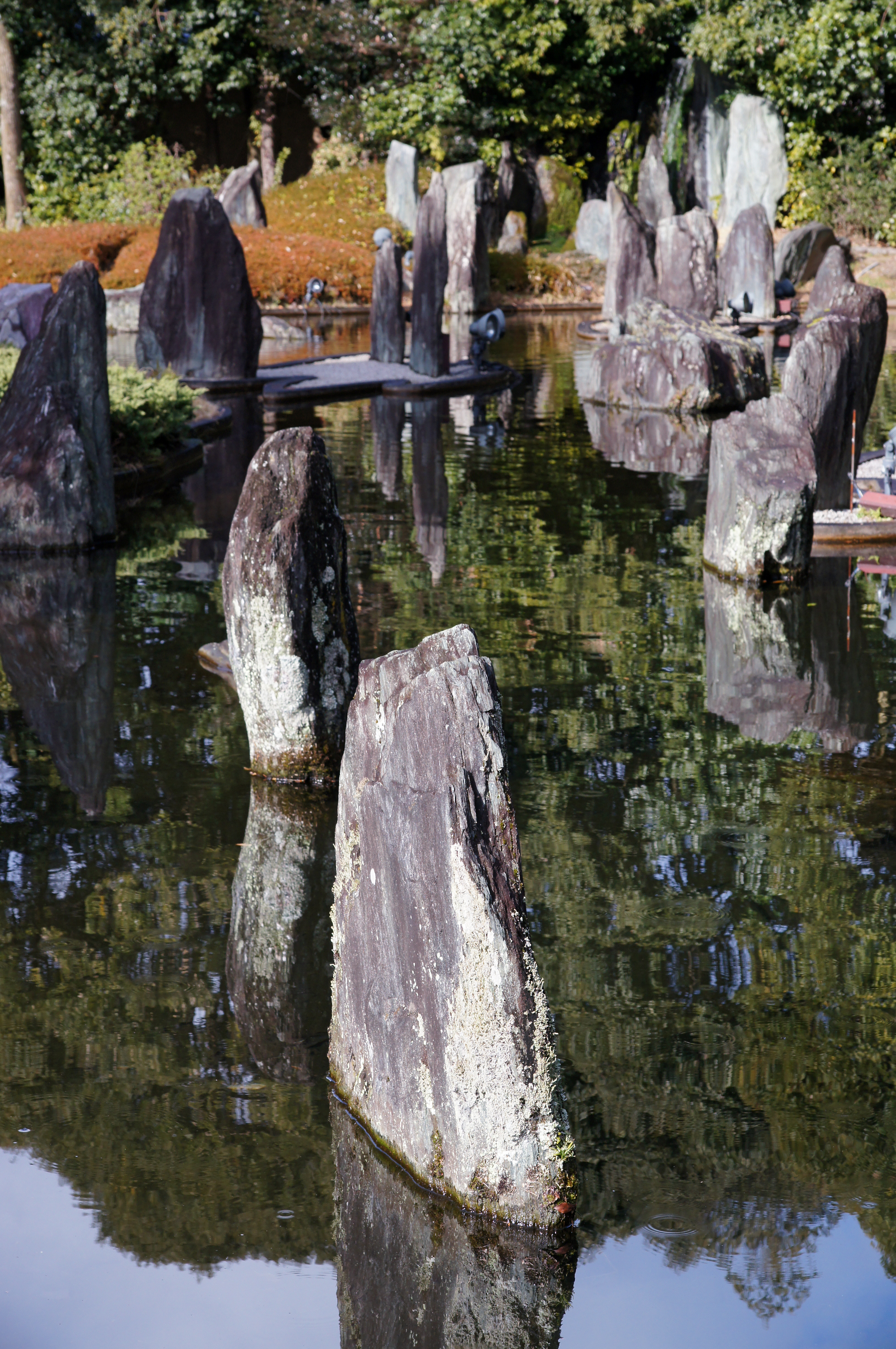 Shofuen gardens of Matsunoo-taisha in Kyoto, Kyoto prefecture, Japan.